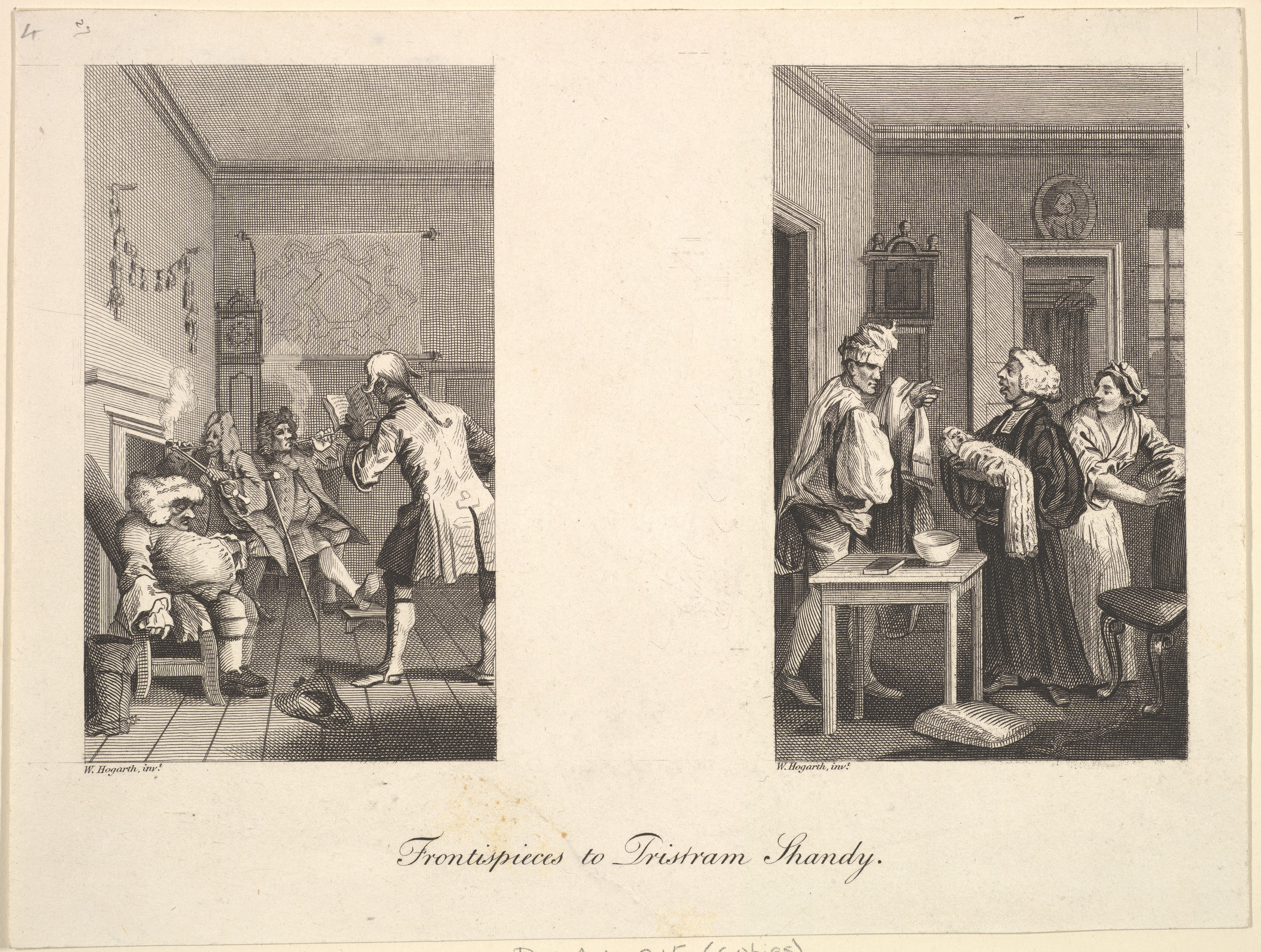 Print; Prints